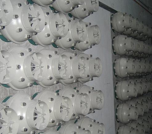 Blast Protection Valves (made by Beth-El Industries - [1]) installed in a bomb shelter